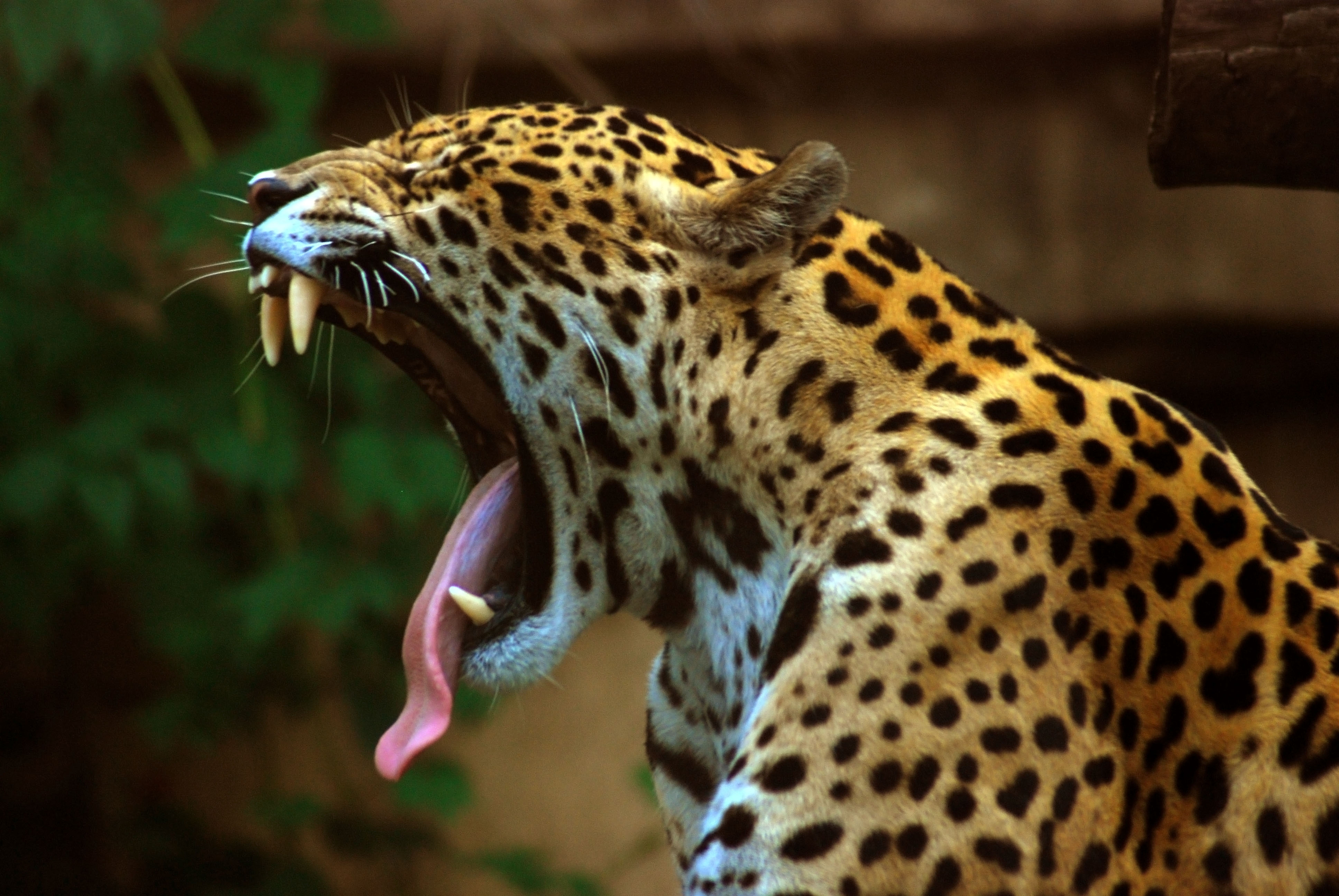 Another shot of the Jaguar found at the Toronto Zoo. Again, this photo has been slightly altered to show greater contrast.